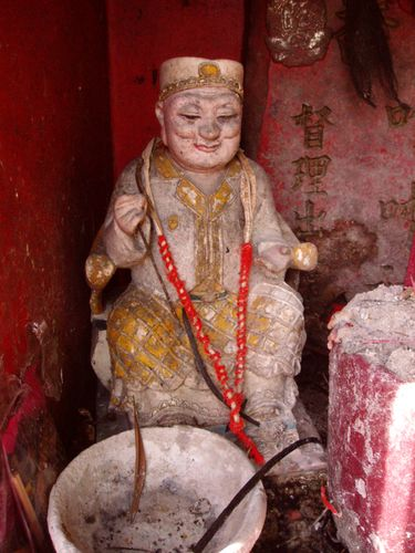 Picture of Na Tuk Kong God - NaTukKong004.jpg